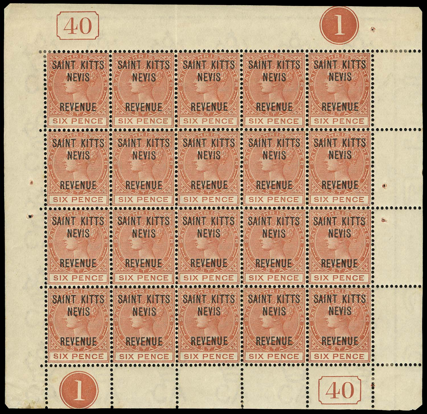 1885 6d revenue stamps of St Kitts Nevis. These stamps were also available for postal use. (SG R5). Watermark: Crown CA. Printing: Typography by De La Rue. Plate 1. Serial No. 40.